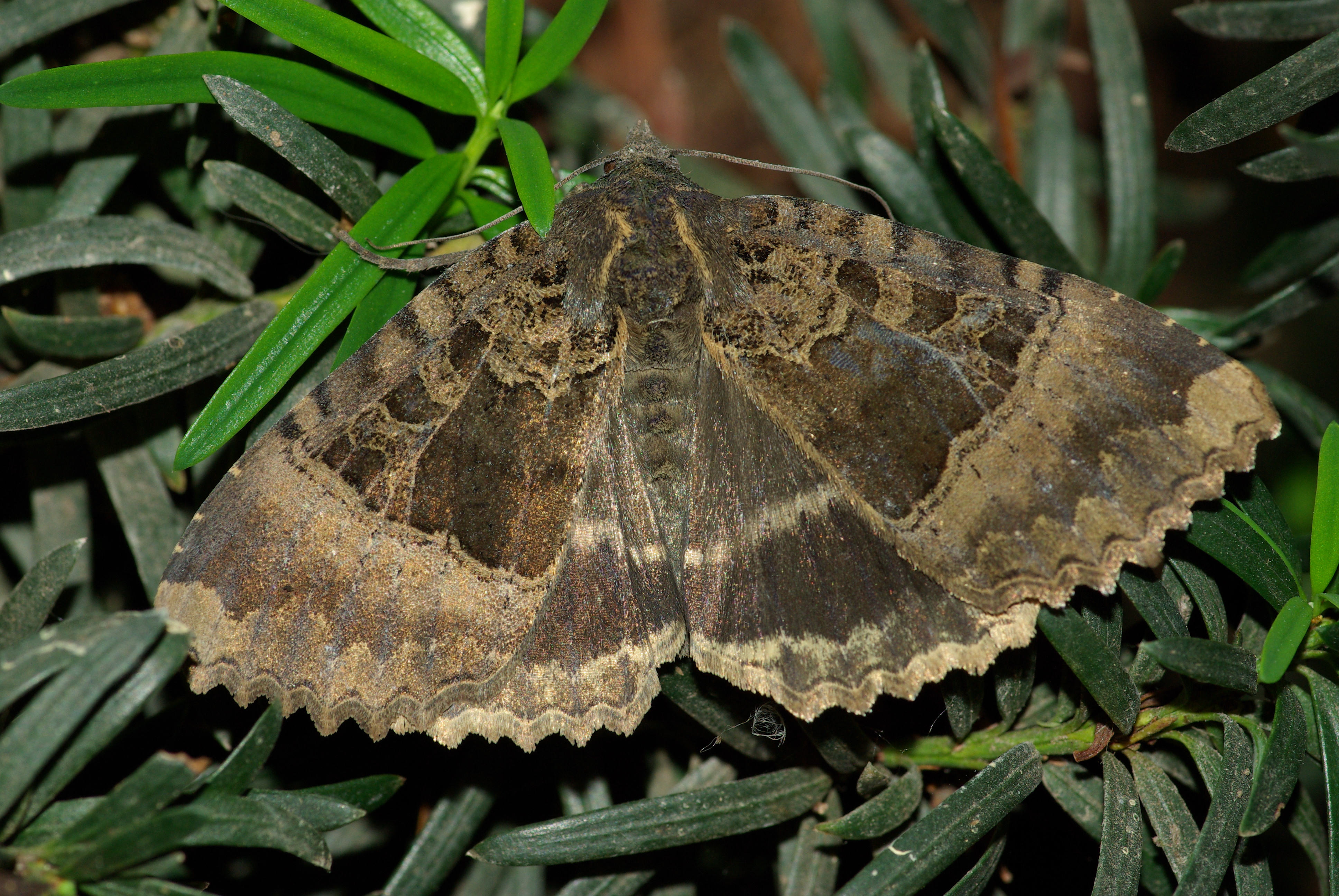 Moth Mormo maura (La Maure) taken in Calvados à Laize-la-Ville 14 France